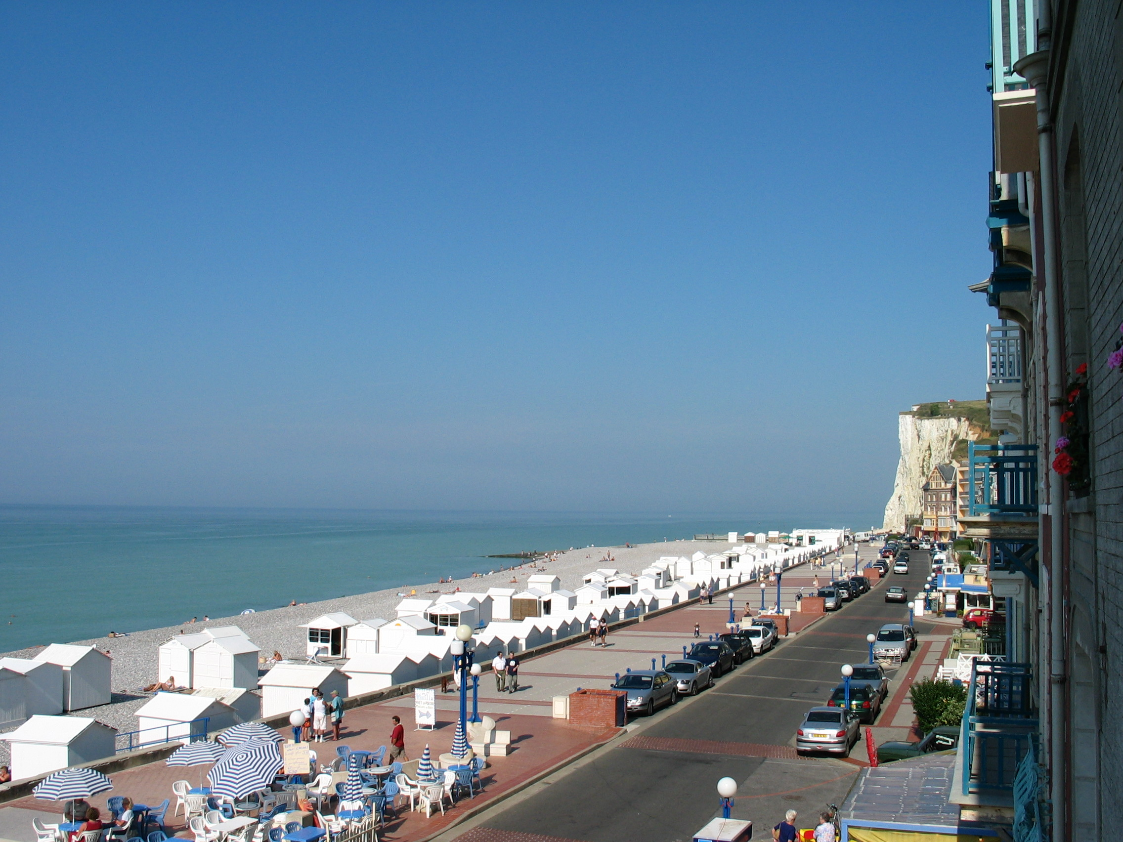 Mers-les-bains